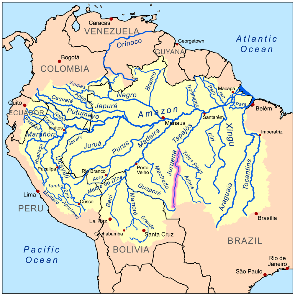 This is a map of the Amazon River drainage basin with the Juruena River highlighted.